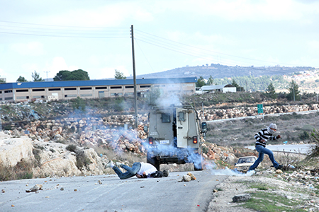 Mustafa fell down after he was fatally shot by Israeli forces in 9 December 2011 during a weekly protest in Nabi Salih, West Bank. The tear gas canister hitting Mustafa's face was fired from the rear door of a military vehicle which Mustafa was running after.